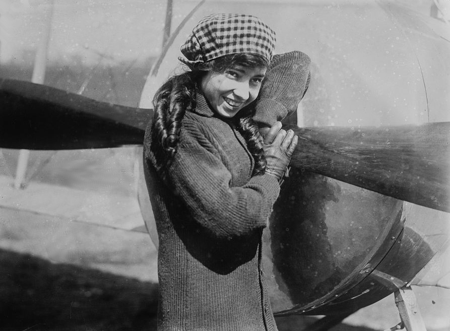 Katherine Stinson, the nineteen year old girl aviator.